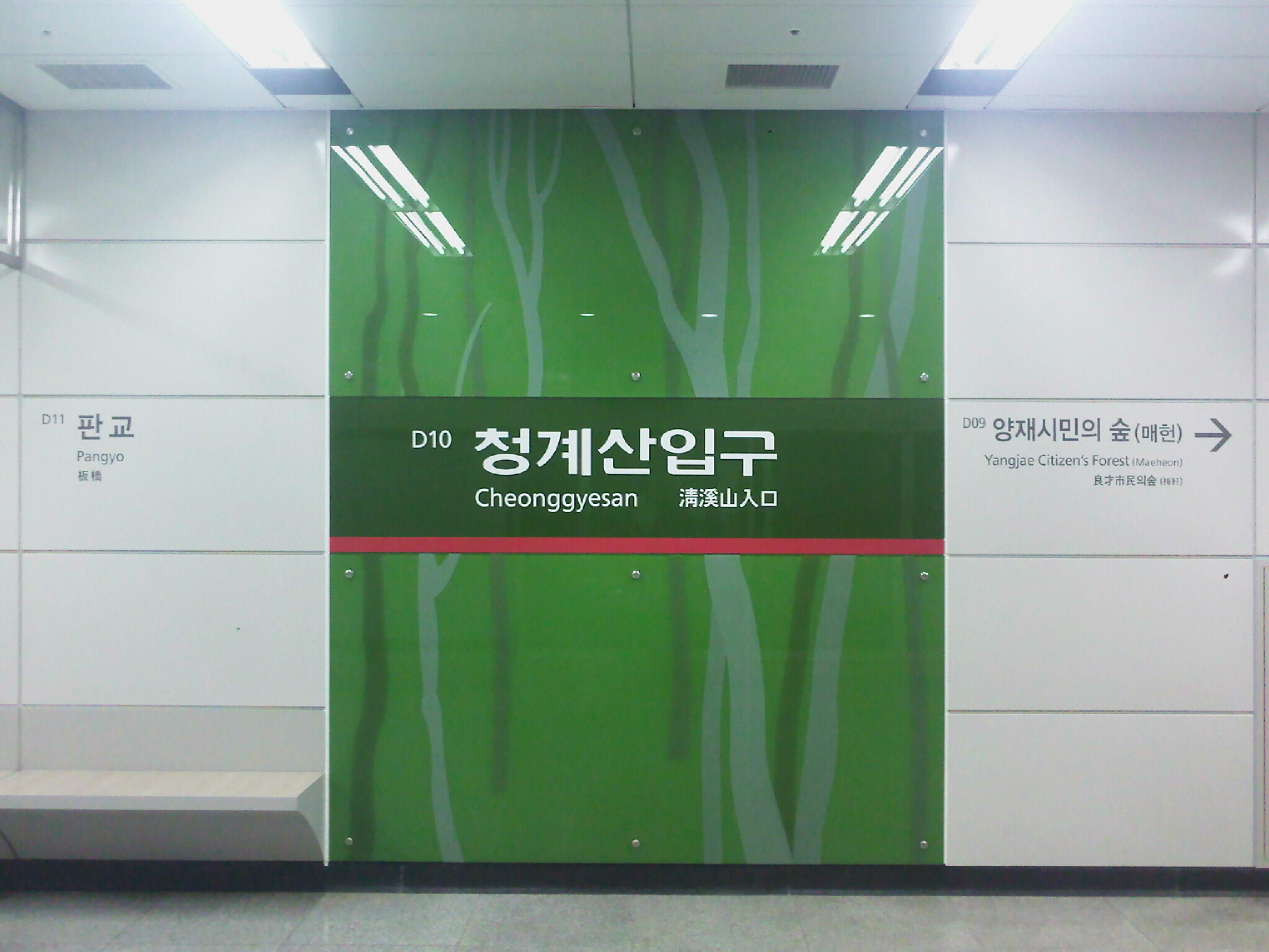 Cheonggyesan, station D10 of the Seoul Metropolitan Subway's Sinbundang line